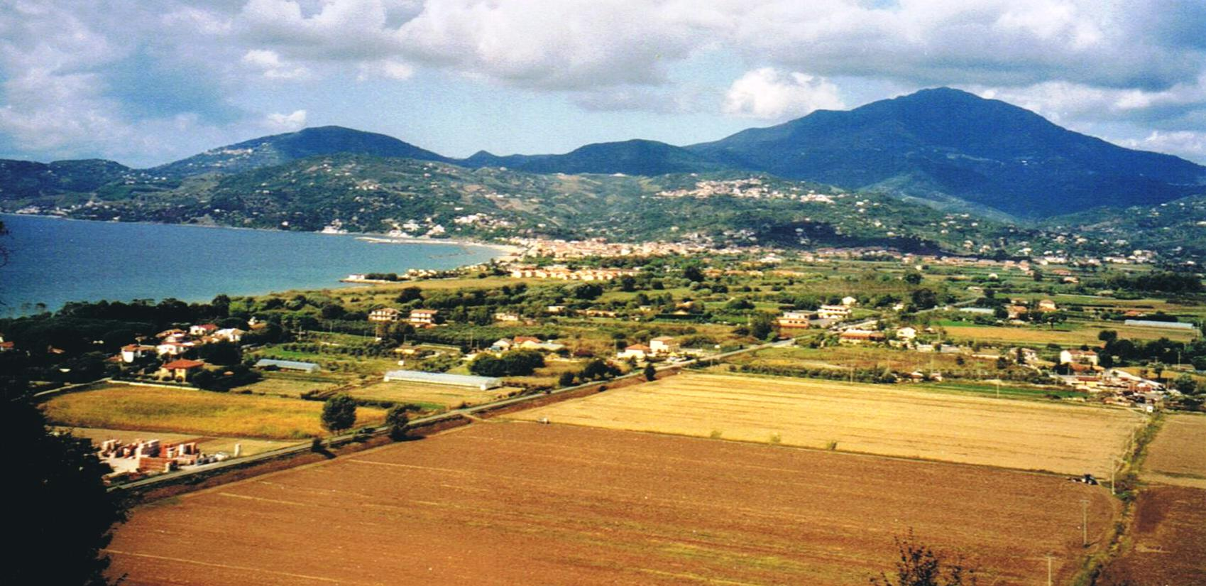 The provincial road SP161 ("Strada provinciale 161") from Marina di Casal Velino to Velia, across the Alento river. Shot taken from the hilltops of Elea-Velia